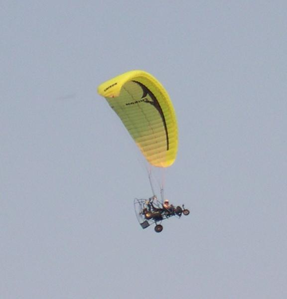 Powered paraglider Photo by User:Sfoskett